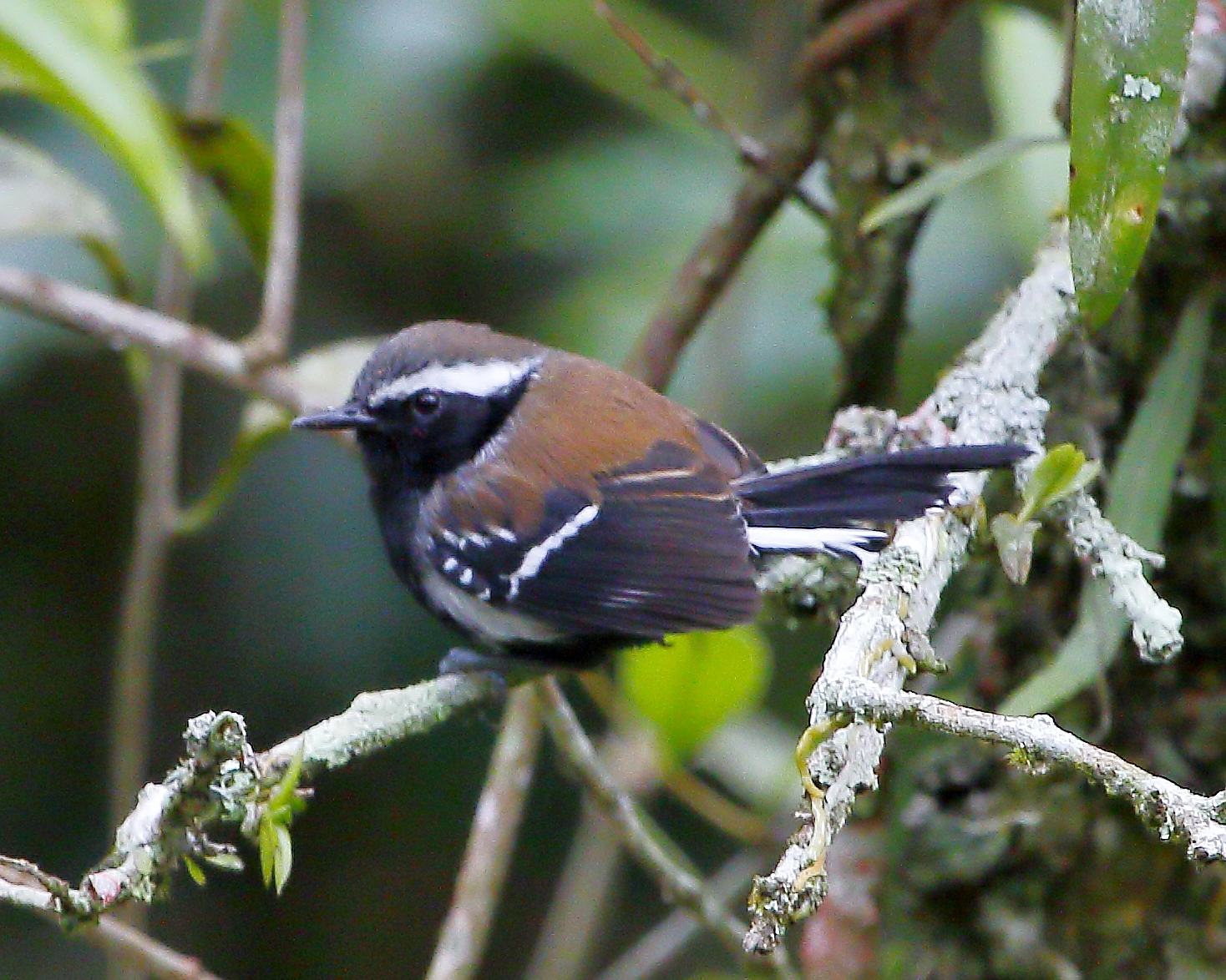 Serra antwren at Domingos Martins, ES, Brazil